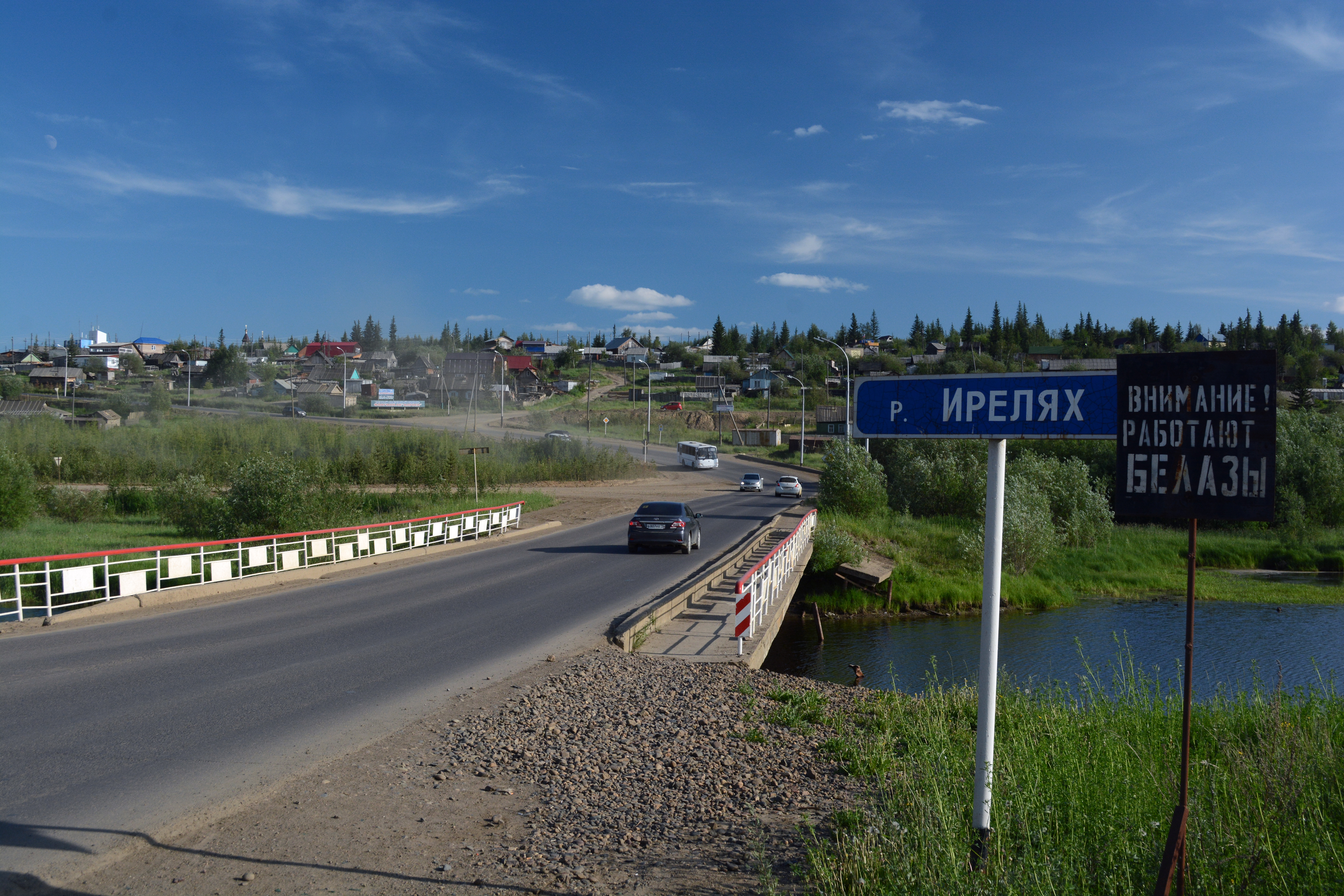 Mirny, Republic of Sakha (Yakutia), Russia